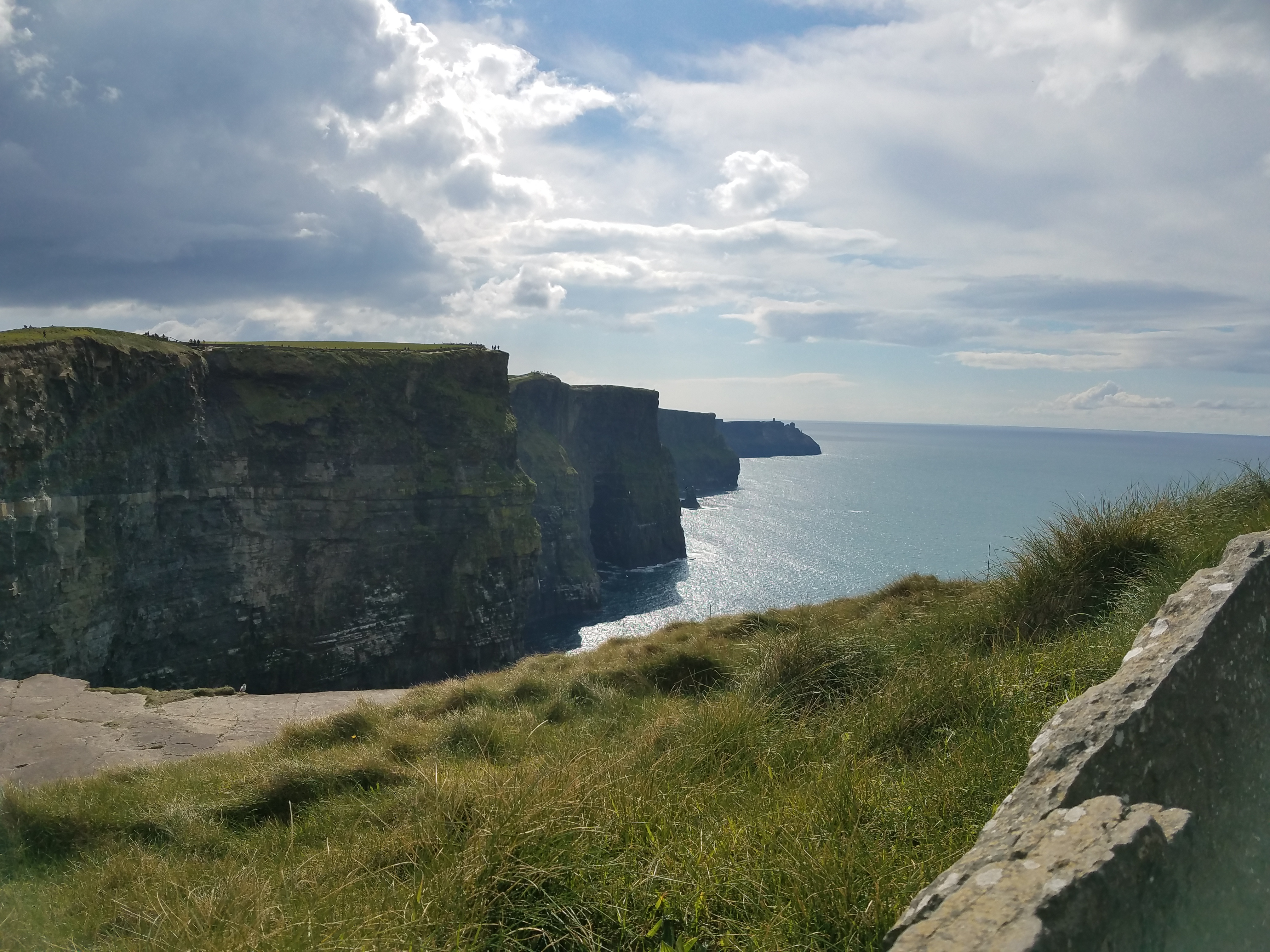 View of the Cliffs, April 2019